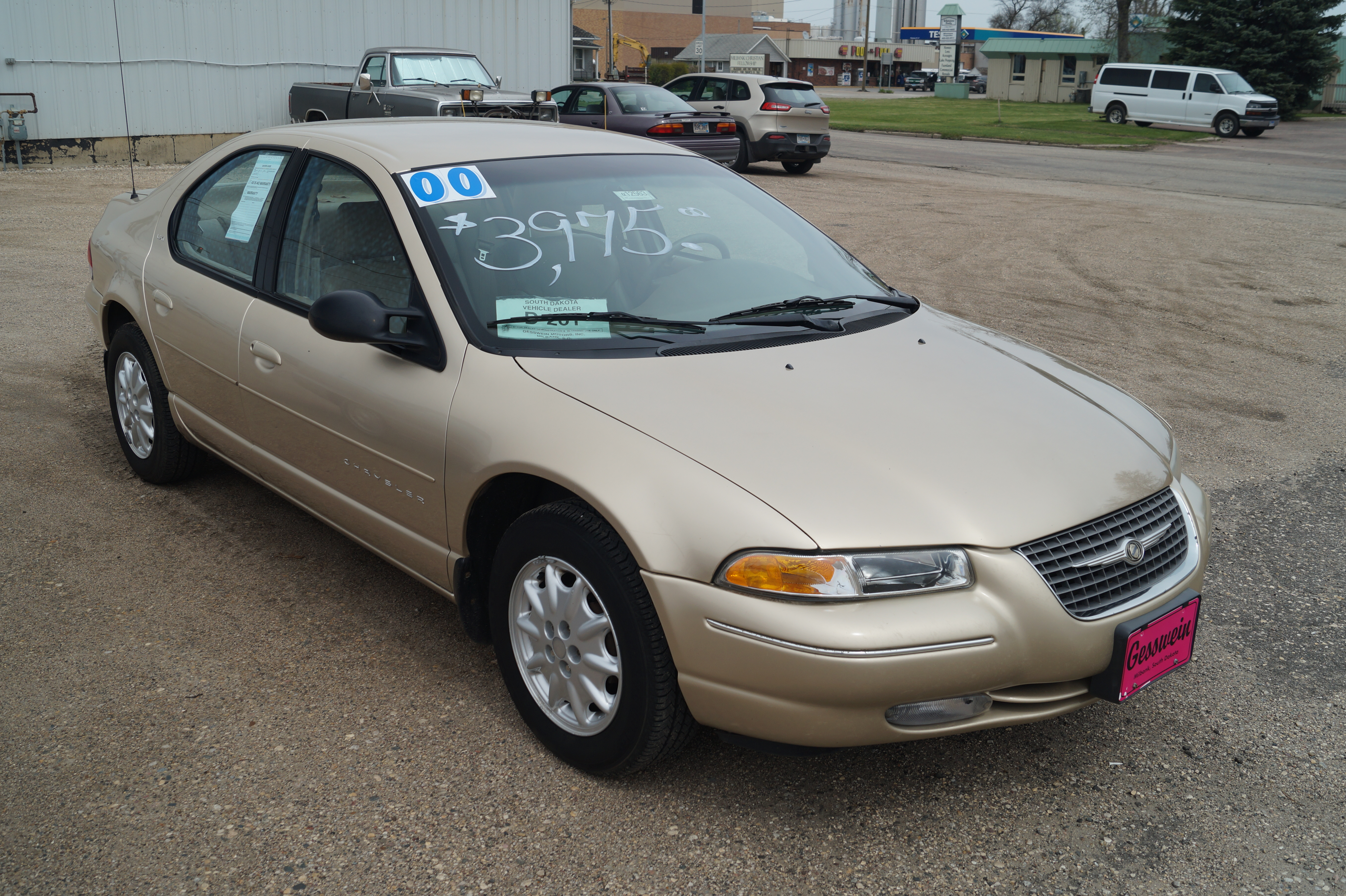 Click here for more car pictures at my Flickr site.